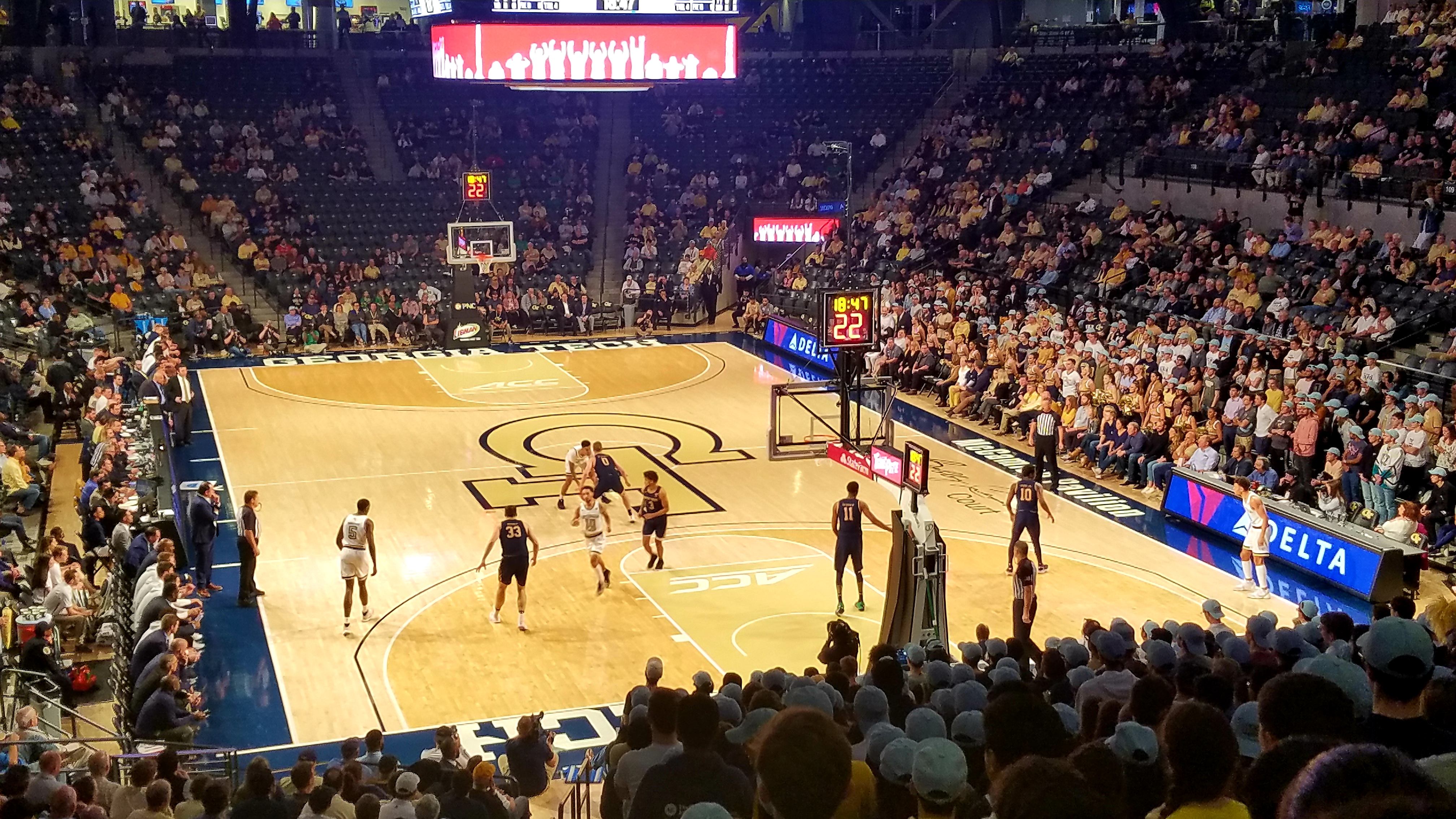 Georgia Tech Yellow Jackets hosting the Notre Dame Fighting Irish on January 15, 2020.